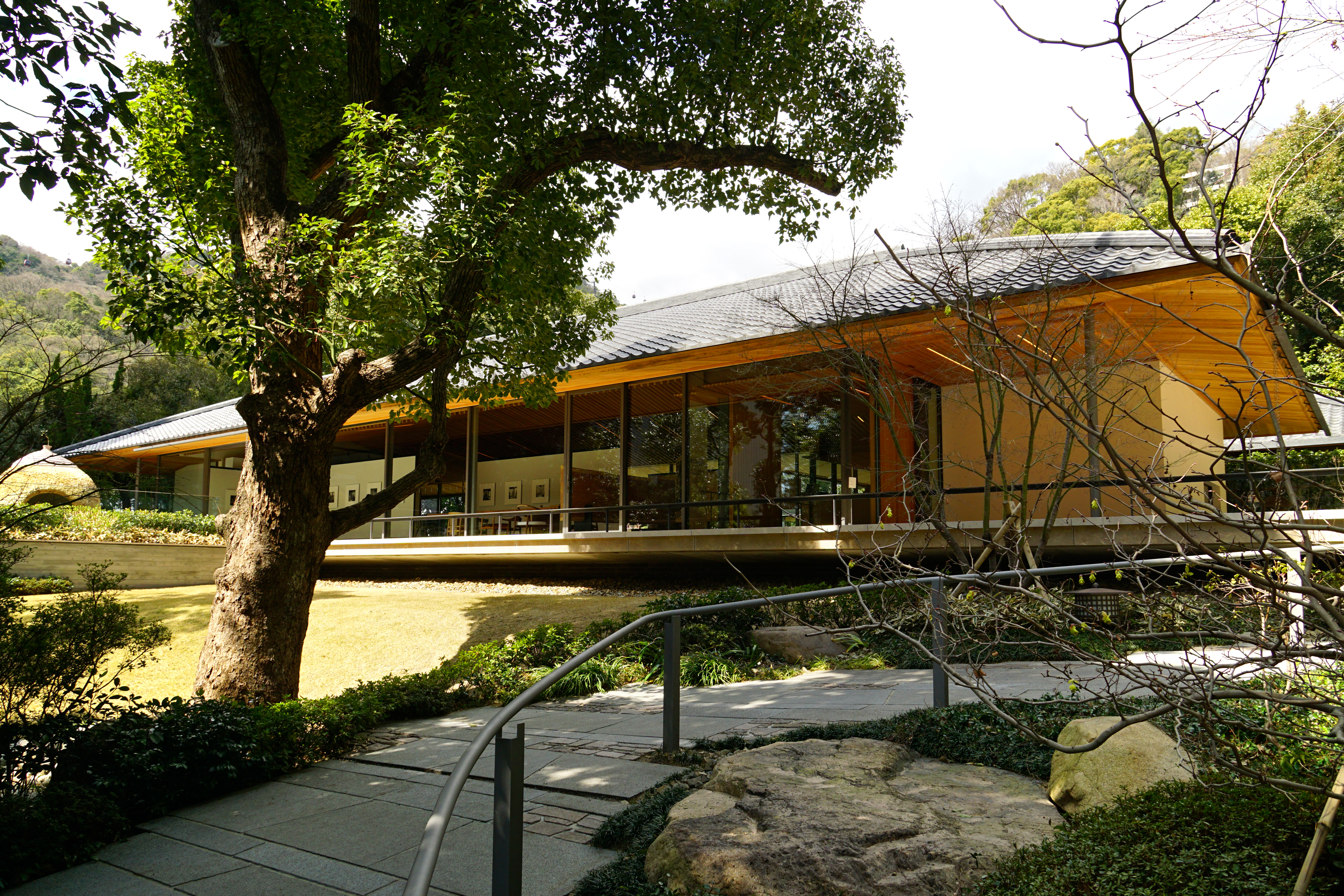 Takenaka Carpentry Tools Museum in Kobe, Hyogo prefecture, Japan.